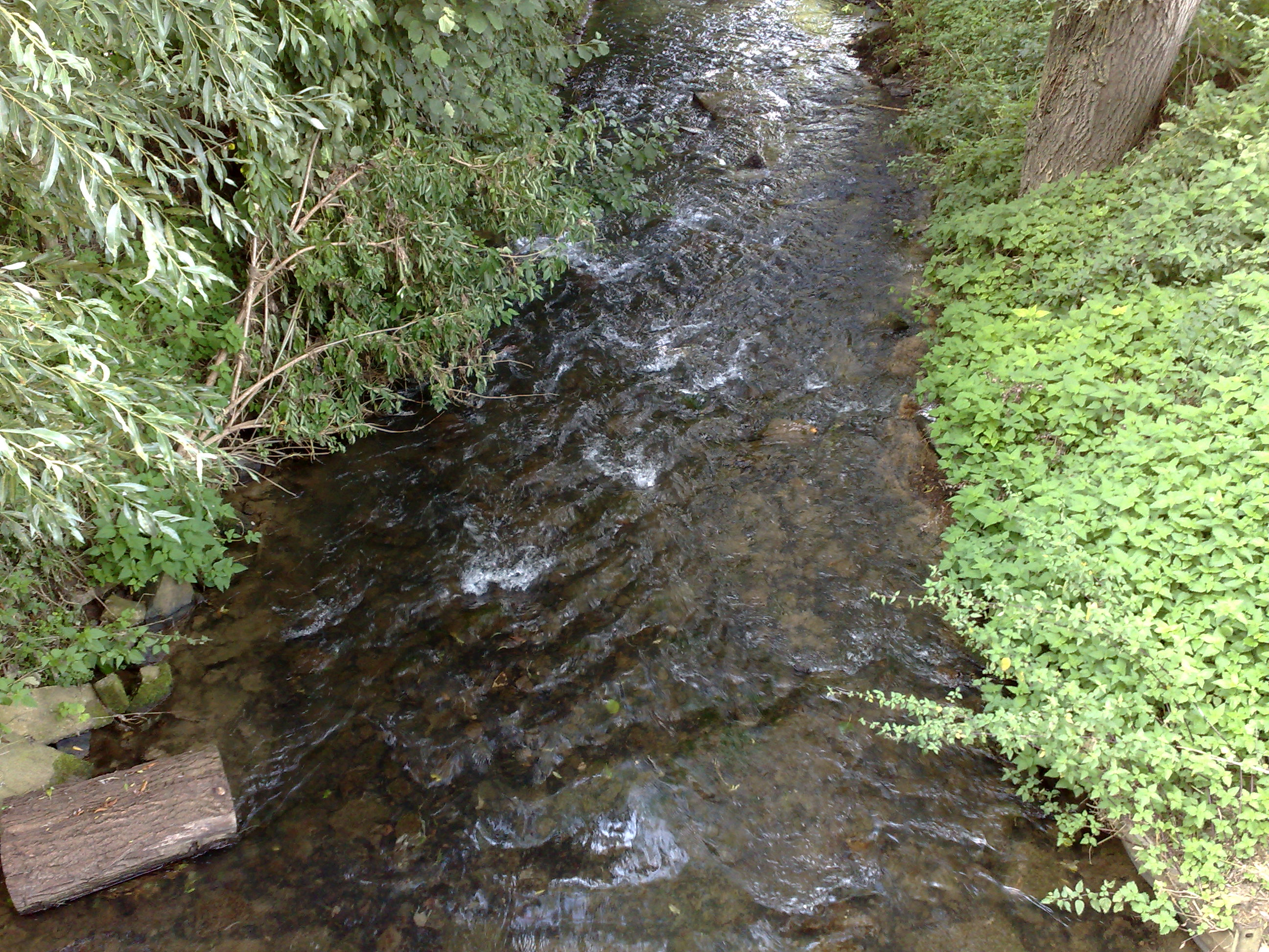 Pics of La Rhônelle, little river in north of France